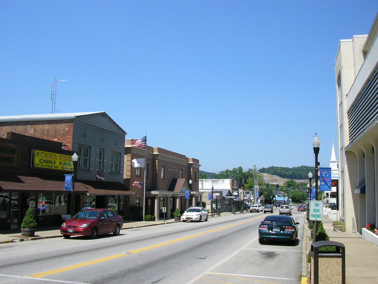 Downtown West Liberty, Kentucky, United States, as it appeared circa 2007. Photo looks north on Main Street (U.S. Route 460) north of the courthouse. During the Early March 2012 tornado outbreak, a tornado travelled through the middle of the downtown, destroying virtually everything visible on the right side of the street as well as some buildings on the left side.